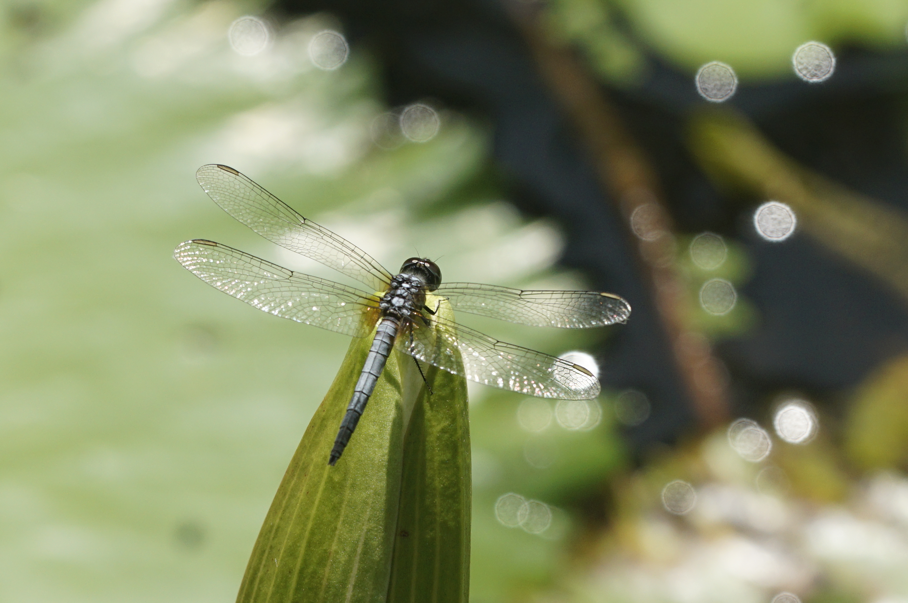 Brachydiplax chalybea